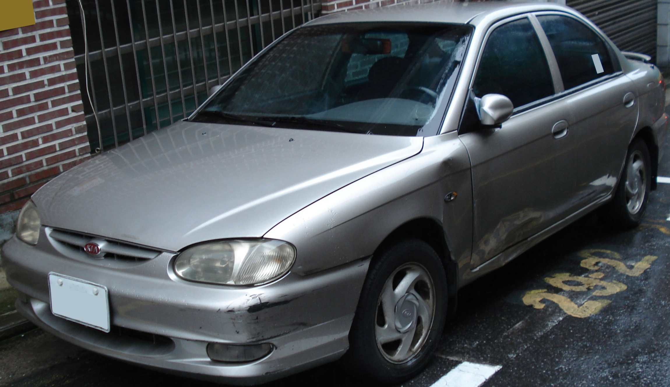 Kia Sephia Ⅱ